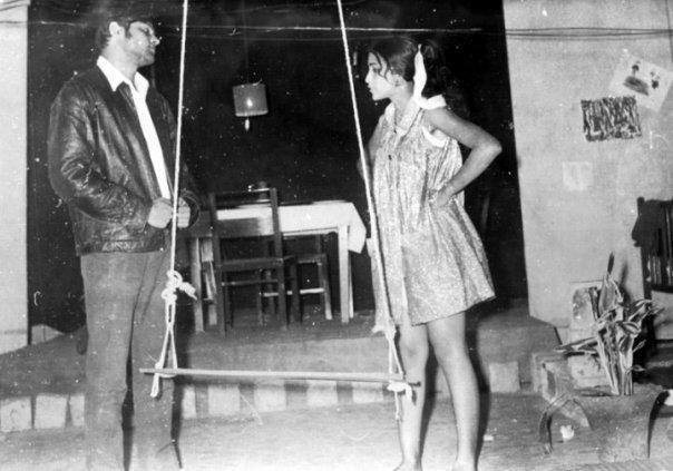 drama spring fest